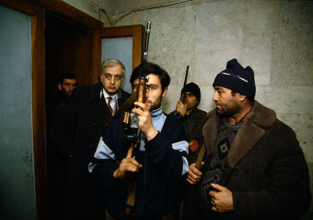 Georgian President Zviad Gamsakhurdia (1990-1992) arrives in his bunker under the Parliament building during the 1991-1992 Georgian coup d'etat.